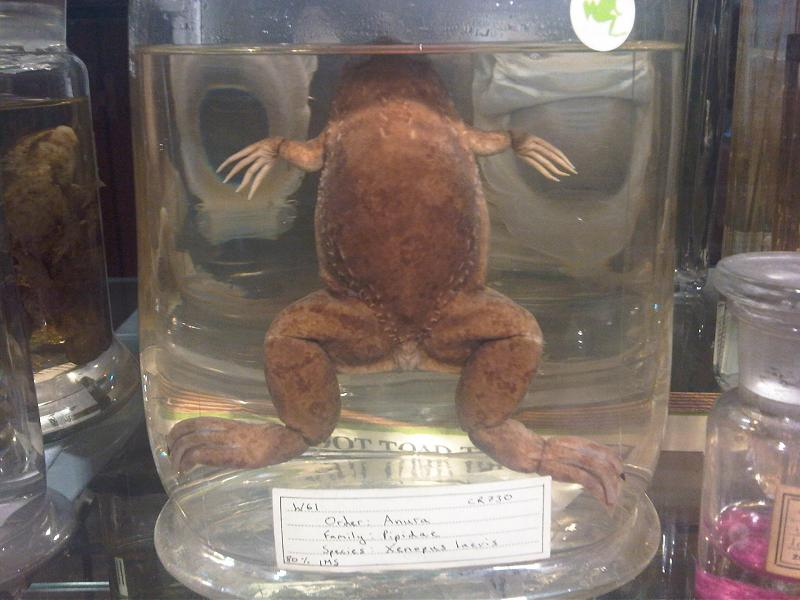 African clawed frog (Xenopus laevis, also known as the platanna) in Grant Museum of Zoology, London, England.